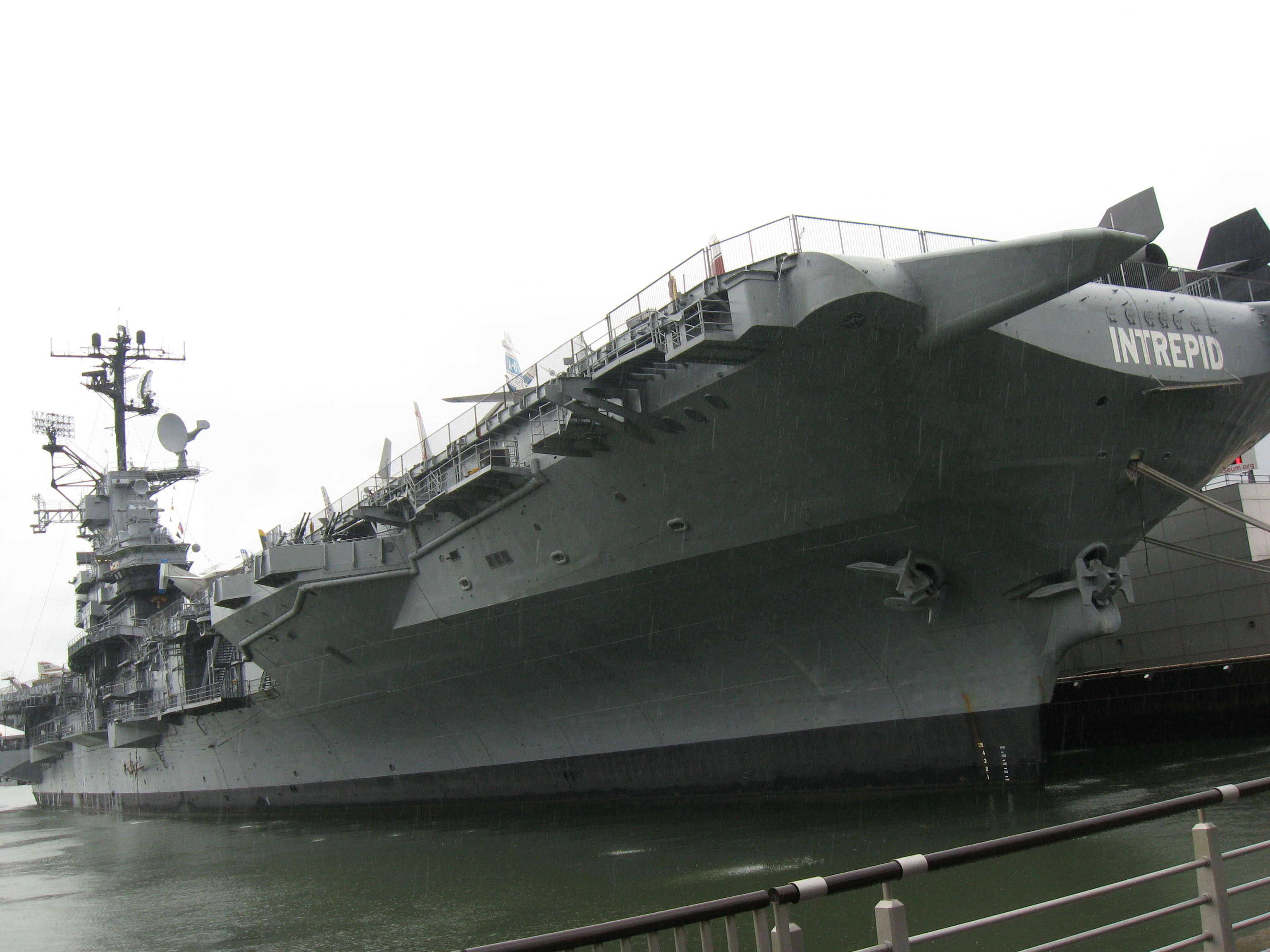 Intrepid Sea, Air & Space Museum in New York City